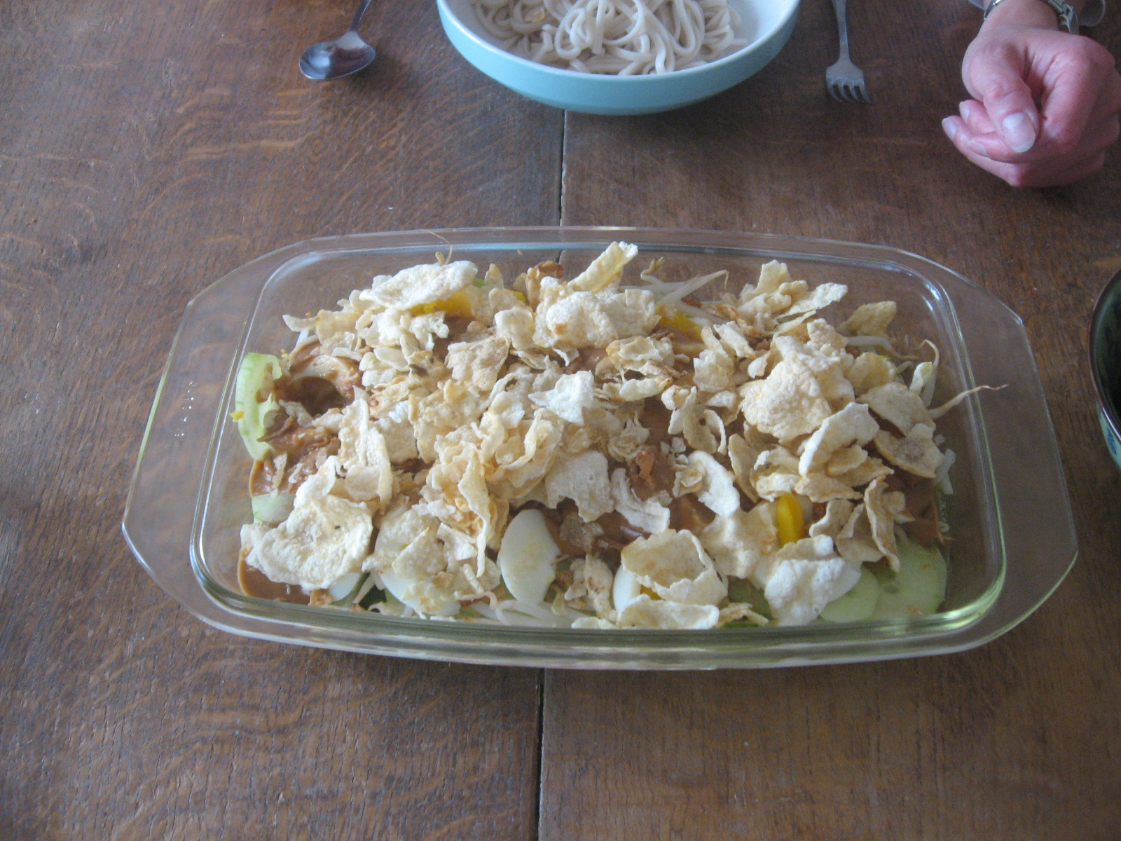 Gado-gado with emping crackers on top